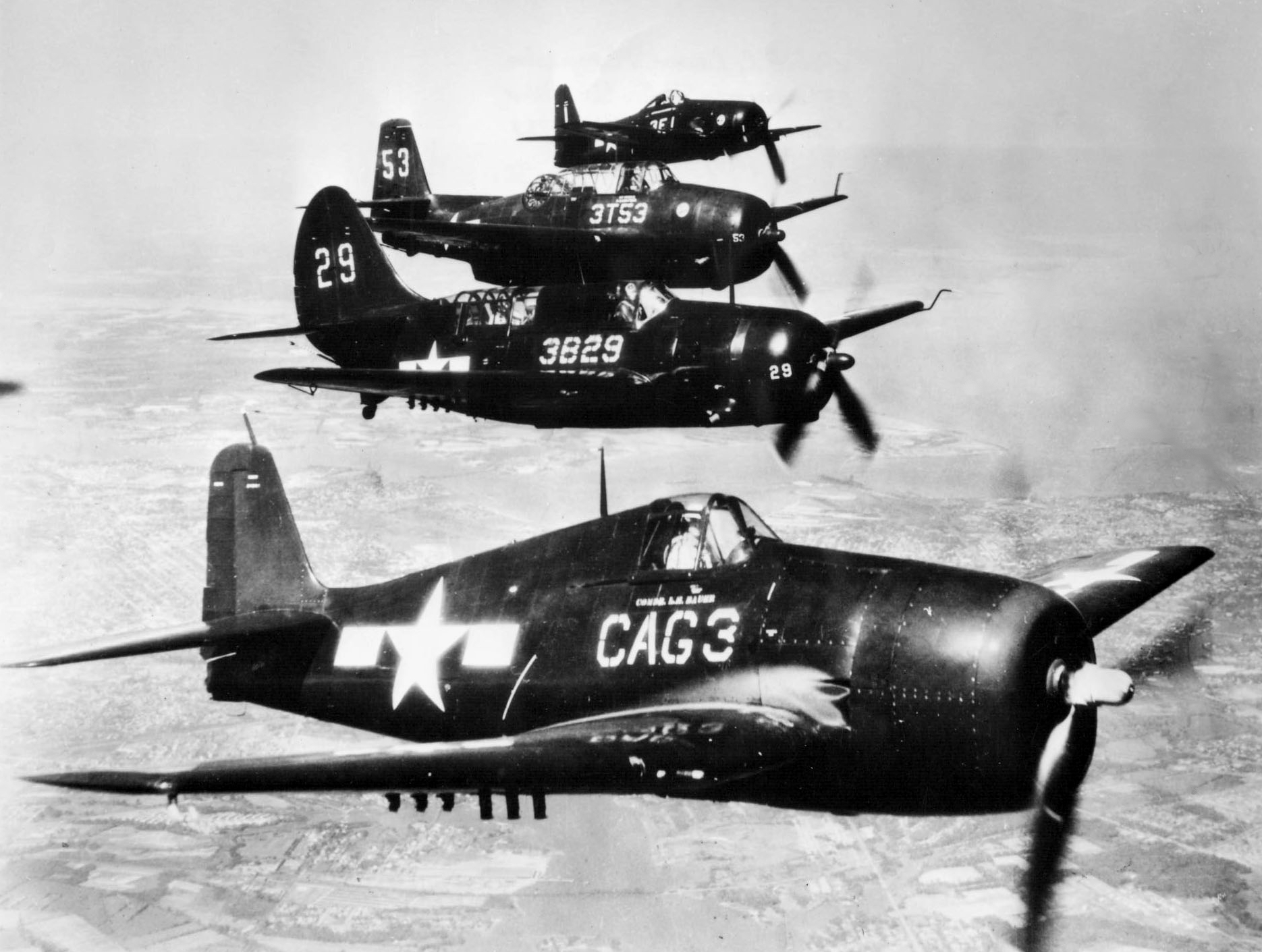 A formation of U.S. Navy aircraft from Carrier Air Group 3 (CVG-3) in flight in 1946. In front is a Grumman F6F-5 Hellcat flown by the Air Group Commander (CAG), Cdr. Louis H. Bauer, followed by a Curtiss SB2C-5 Helldiver (from VB-3), a Grumman TBM-3E Avenger (VT-3), and a Grumman F8F-1 Bearcat (VF-3).